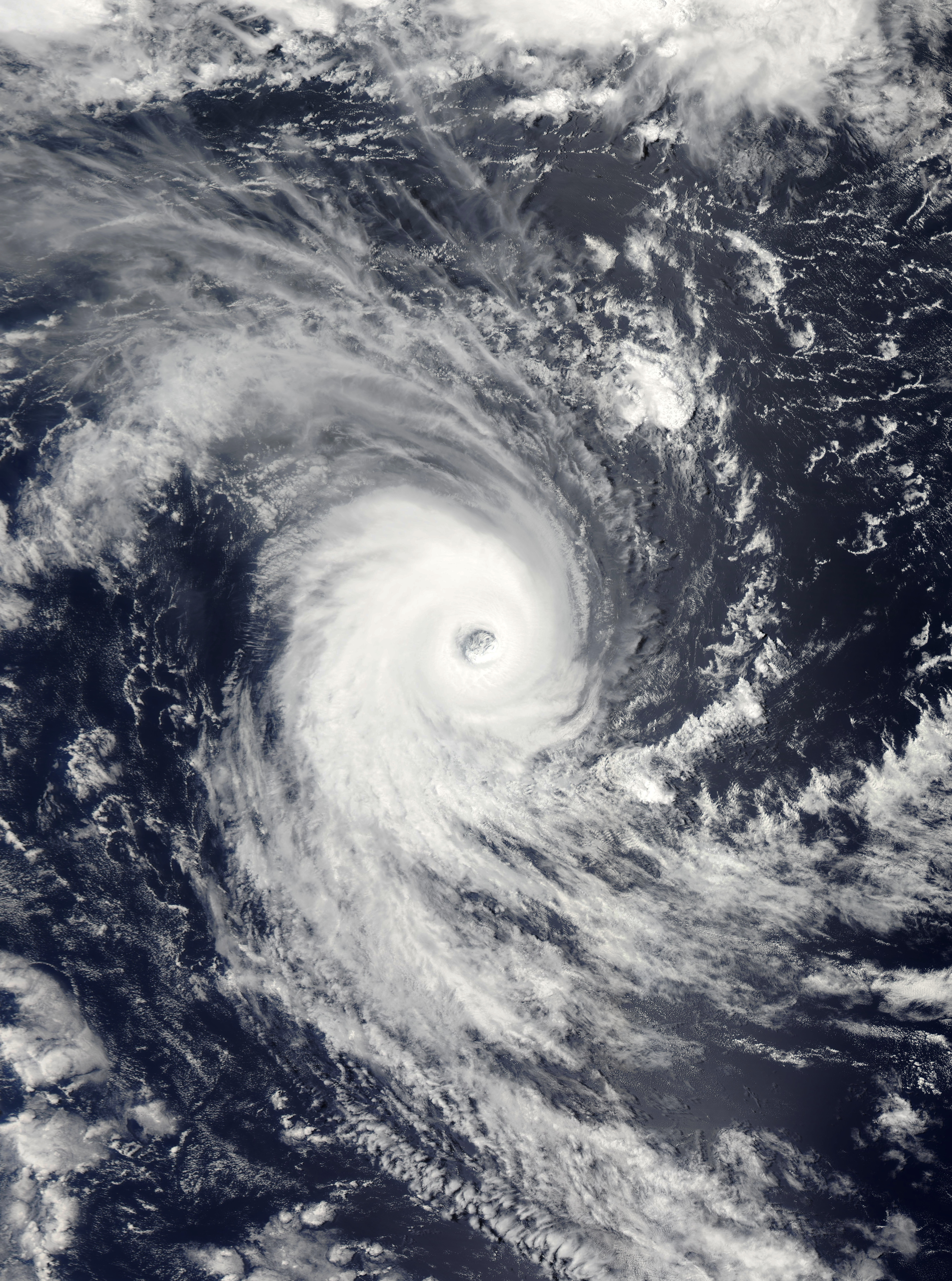 Cyclone Hondo shortly after reaching its secondary peak on February 9, 2008